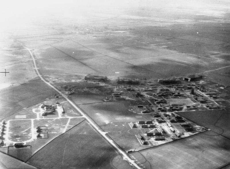 IWM caption : Oblique aerial view of RAF Hemswell, Lincolnshire, from east-south-east. The airfield, and the administrative, technical and domestic sites (right) lie to the north of the A631, seen running westwards towards Gainsborough, with the Officers' Mess and married quarters on the south side (lower left). At the time the photograph was taken, Hemswell was home to Nos. 61 and 144 Squadrons RAF, operating Handley Page Hampdens within No. 5 Group.